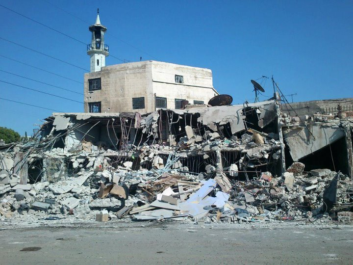 al FATEH mosk